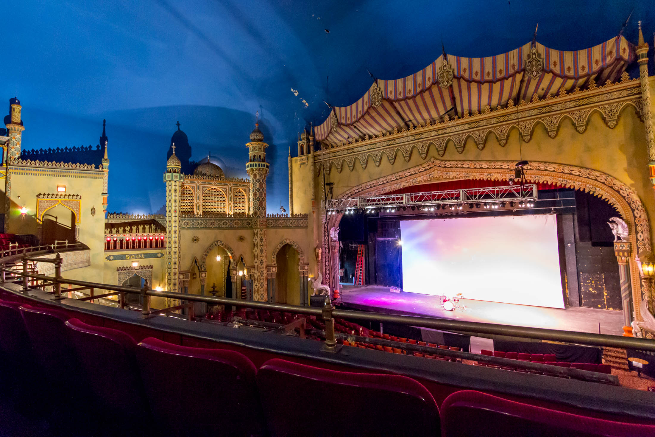 Interior of the New Regal Theater in Chicago, Illinois